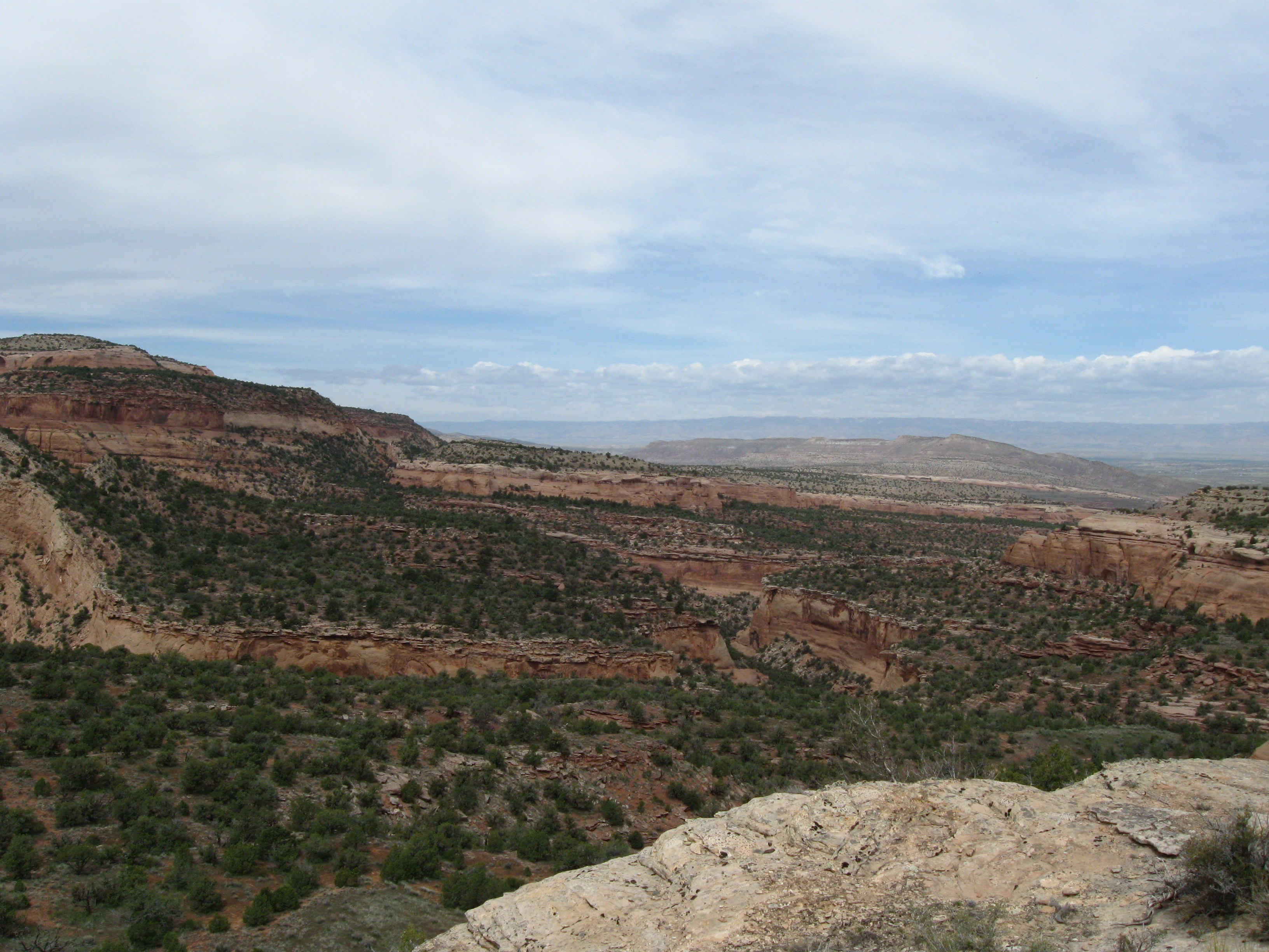 Looking over Pollock Canyon, to the north — in the BLM McInnis Canyons National Conservation Area, Mesa County, Colorado.